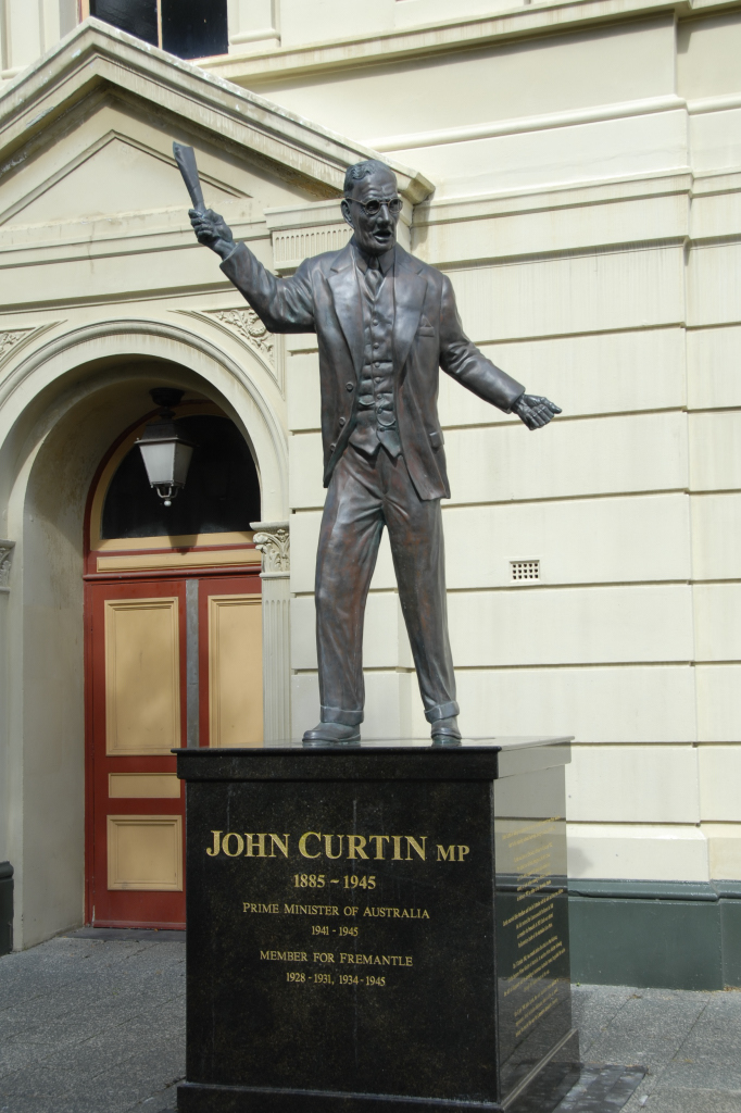 Image of a statue of John Curtin, located outside the Fremantle Town Hall, Western Australia.